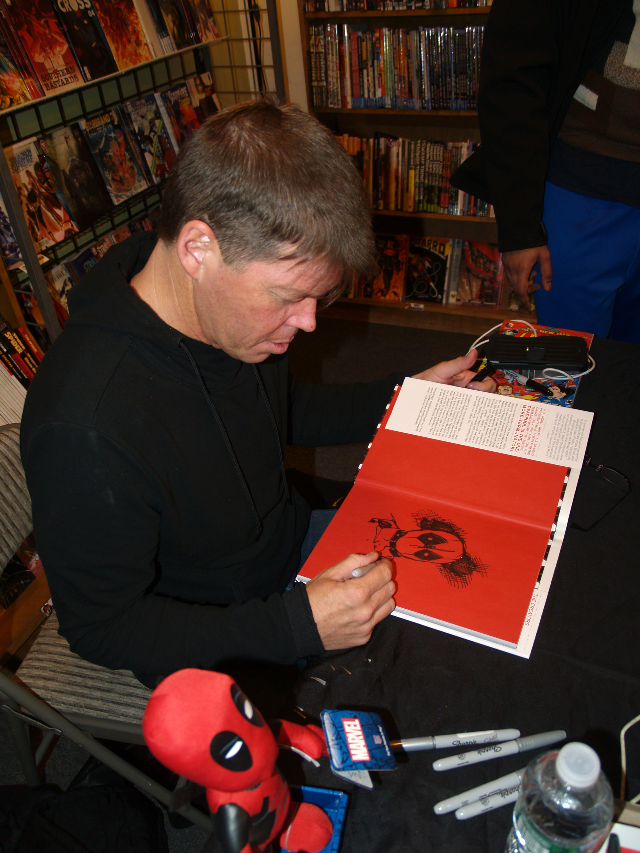 Comics creator Rob Liefeld signing copies of Marvel True Believers: Deadpool #1 at JHU Comics in Manhattan on February 9, 2016. The book is a reprint of The New Mutants #98 (February 1991), which features the first appearance of the most popular character Liefeld created, Deadpool. The signing was timed to coincide with the February 12, 2016 release of the superhero film Deadpool, which features that character. Other books featuring the character surround the edge of the table, while a miniature figurine of the genetically enhanced mercenary stands on the table to Liefeld's right. In the photo, Liefeld is sketching the character in a fan's copy of the 2014 Deadpool Volume 1 hardcover by Gerry Duggan and Brian Posehn. This photo was created by Luigi Novi. It is not in the public domain, and use of this file outside of the licensing terms is a copyright violation.